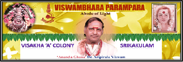 viswambhara parampara.srikakulam.march26